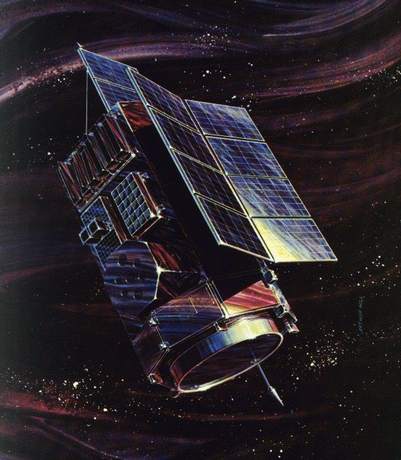 Artist's impression of High-Energy Astronomy Observatory 1 (HEAO-1)